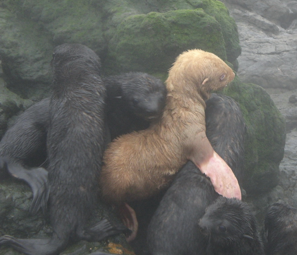 Callorhinus ursinus blonde morph